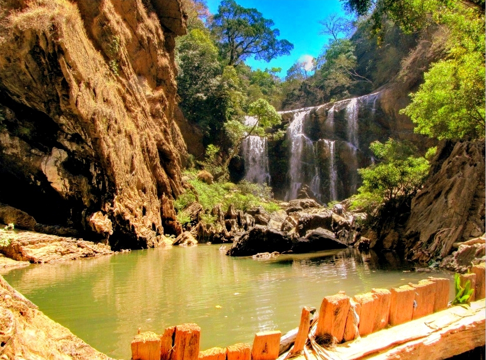 Satoddi Falls is a waterfall in India that is formed by several unnamed streams near Kallaramarane Ghat, Uttara Kannada District, near Sirsi, and 32 km from Yellapur. It is about 15 meters (49.2 feet) tall. The stream then flows into the backwaters of the Kodasalli Dam, into the Kali River. The forest department was building a pergola for tourists to rest as of December 2006.